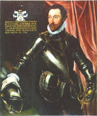 Hans Ulrich of Eggenberg (1568-1634)